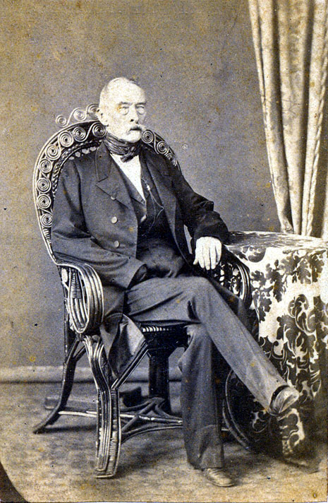 João Frederico Caldwell, lieutenant general of the army of the Empire of Brazil